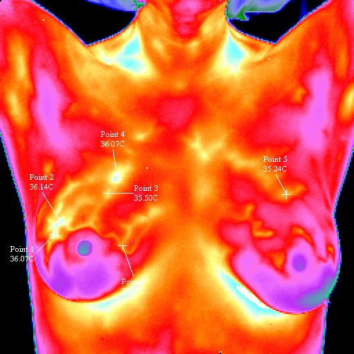 This is a high-resolution mid-range infrared image depicting cancer in the right breast by the high-energy blood vessels. Philip P. Hoekstra, III, Ph.D. This is a high-resolution mid-range infrared image depicting cancer in the right breast by the high-energy blood vessels. Philip P. Hoekstra, III, Ph.D.